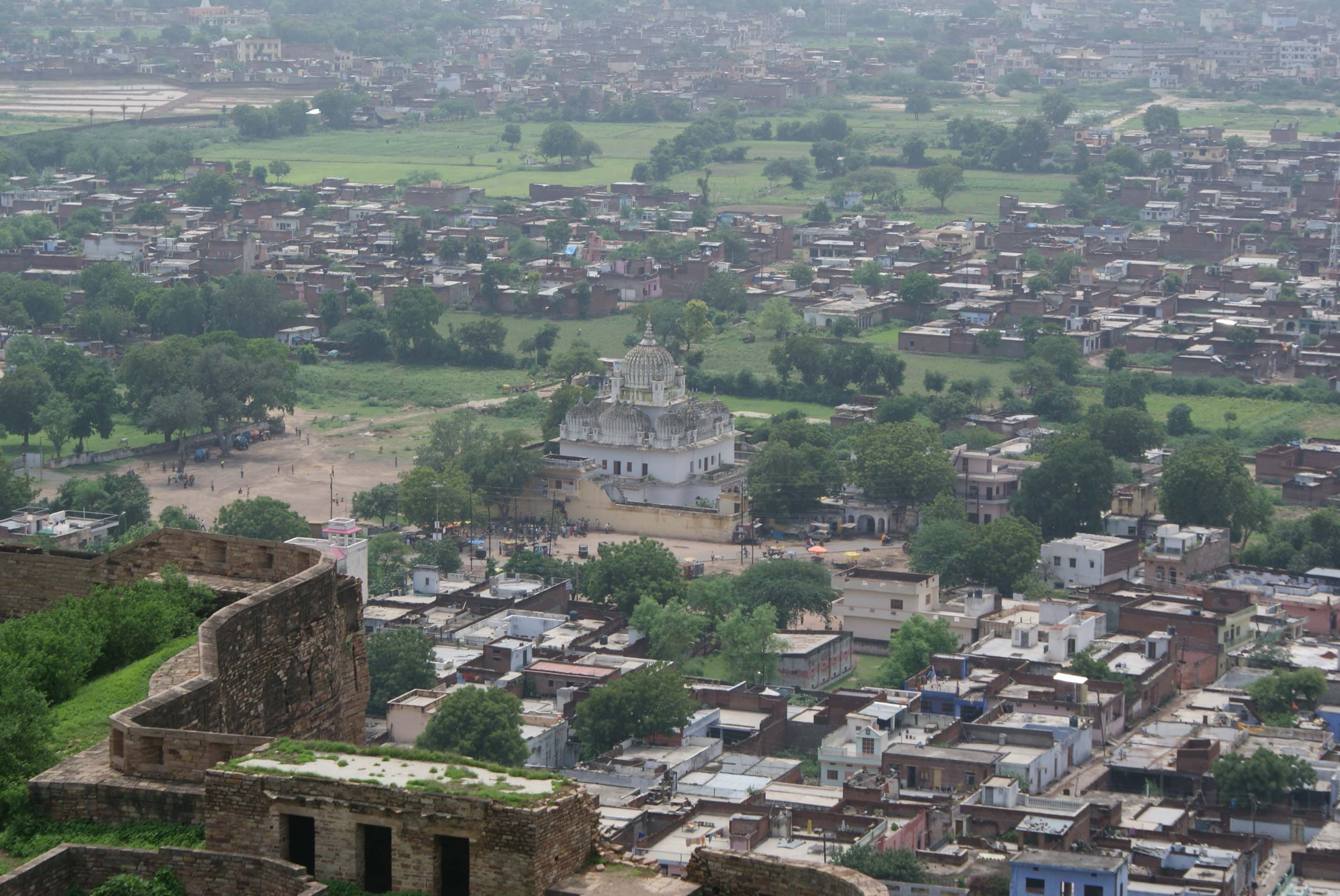 Gwalior city